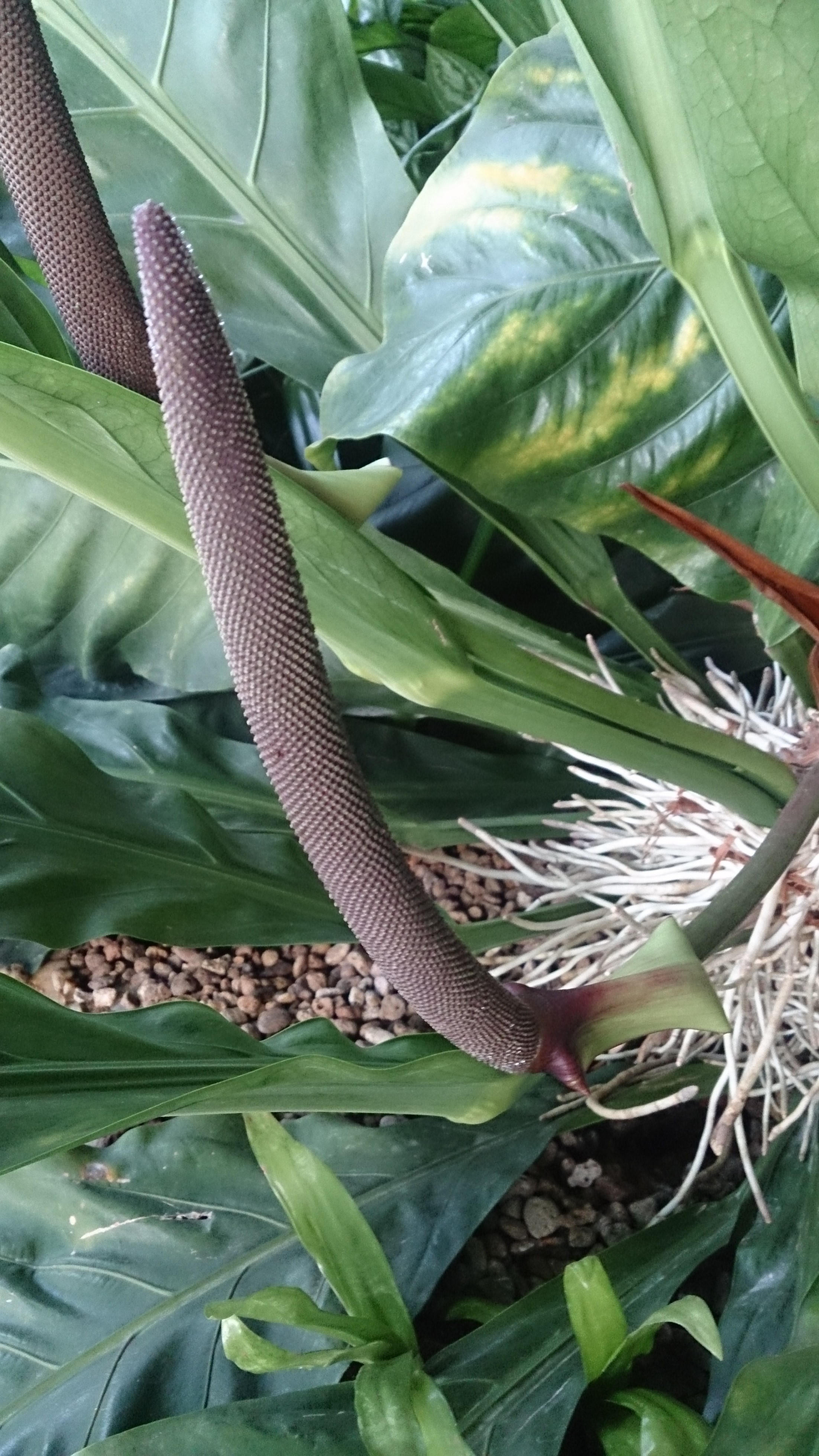 Anthurium plowmanii. Common name: Bird's Nest Anthurium. 婆罗花烛 (Póluó huāzhú) (Chinese)